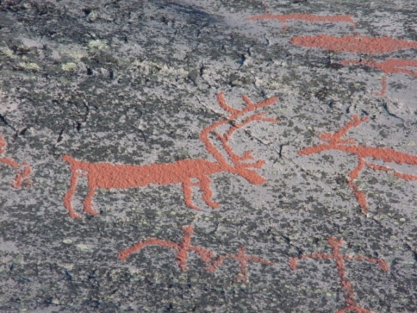 Alta, Norway - rock drawings (Runes) dated 4200 BC